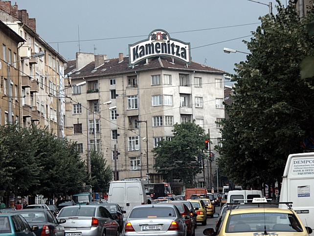 "Hristo Botev" Blvd in Sofia, Bulgaria.